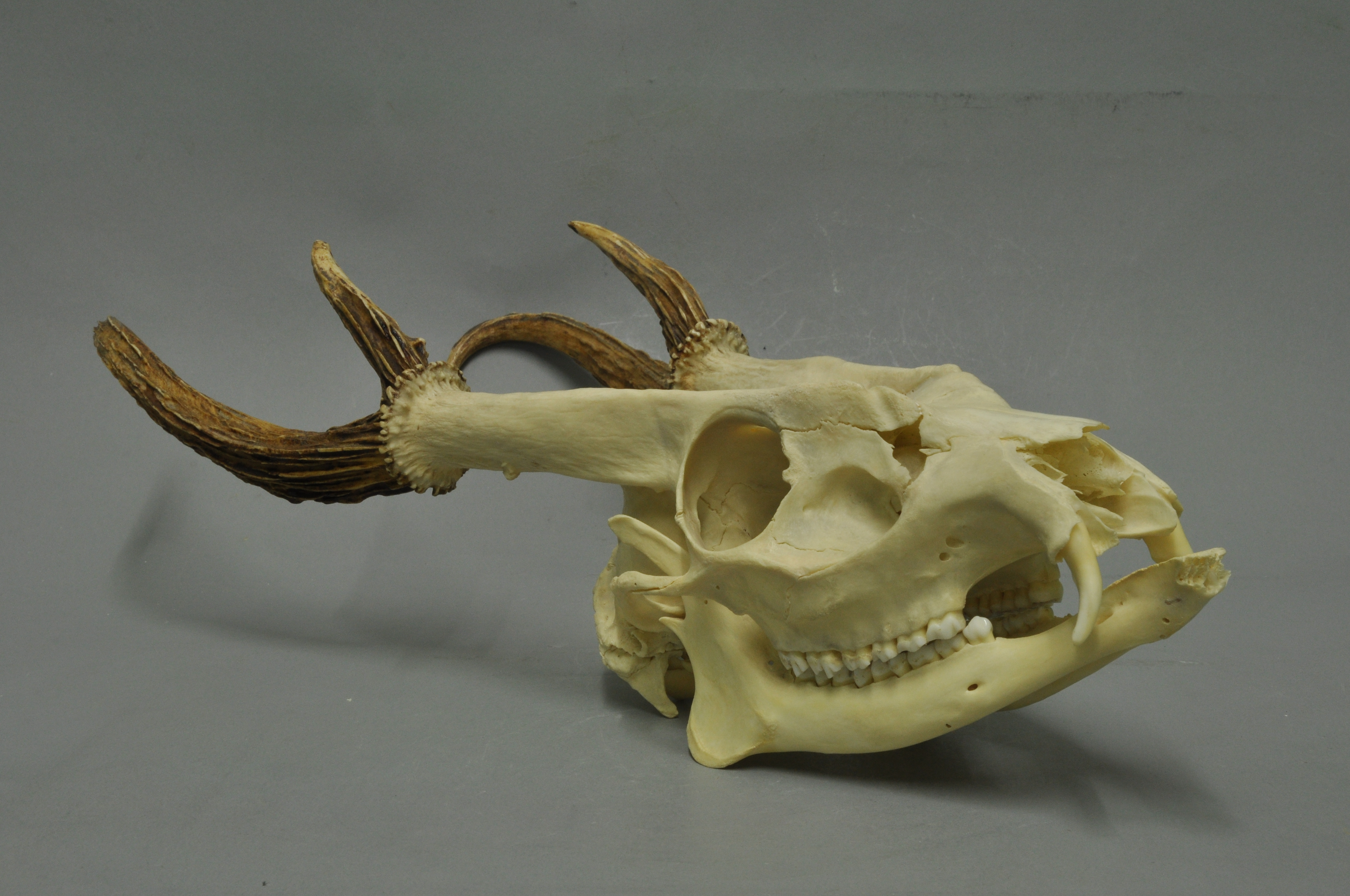 Indian muntjac Muntiacus muntjak , skull, Coll. Museum Wiesbaden